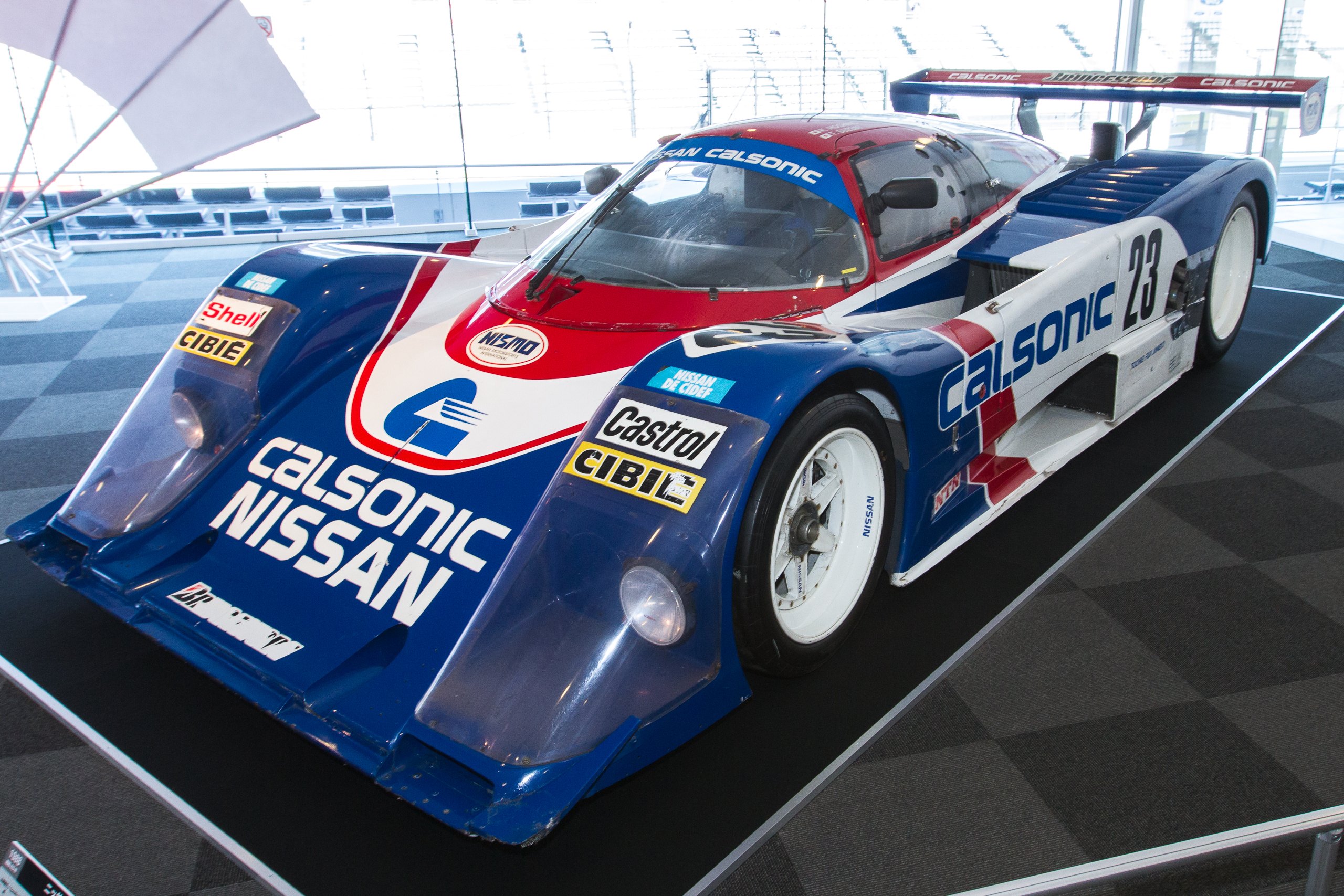 Suzuka Circuit 50th Anniversary "Time Machine Exhibition": 1988 Nissan R88C